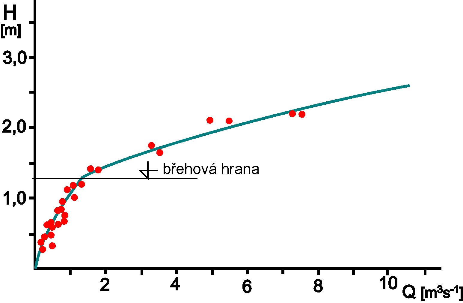 Open channel Q-H curve